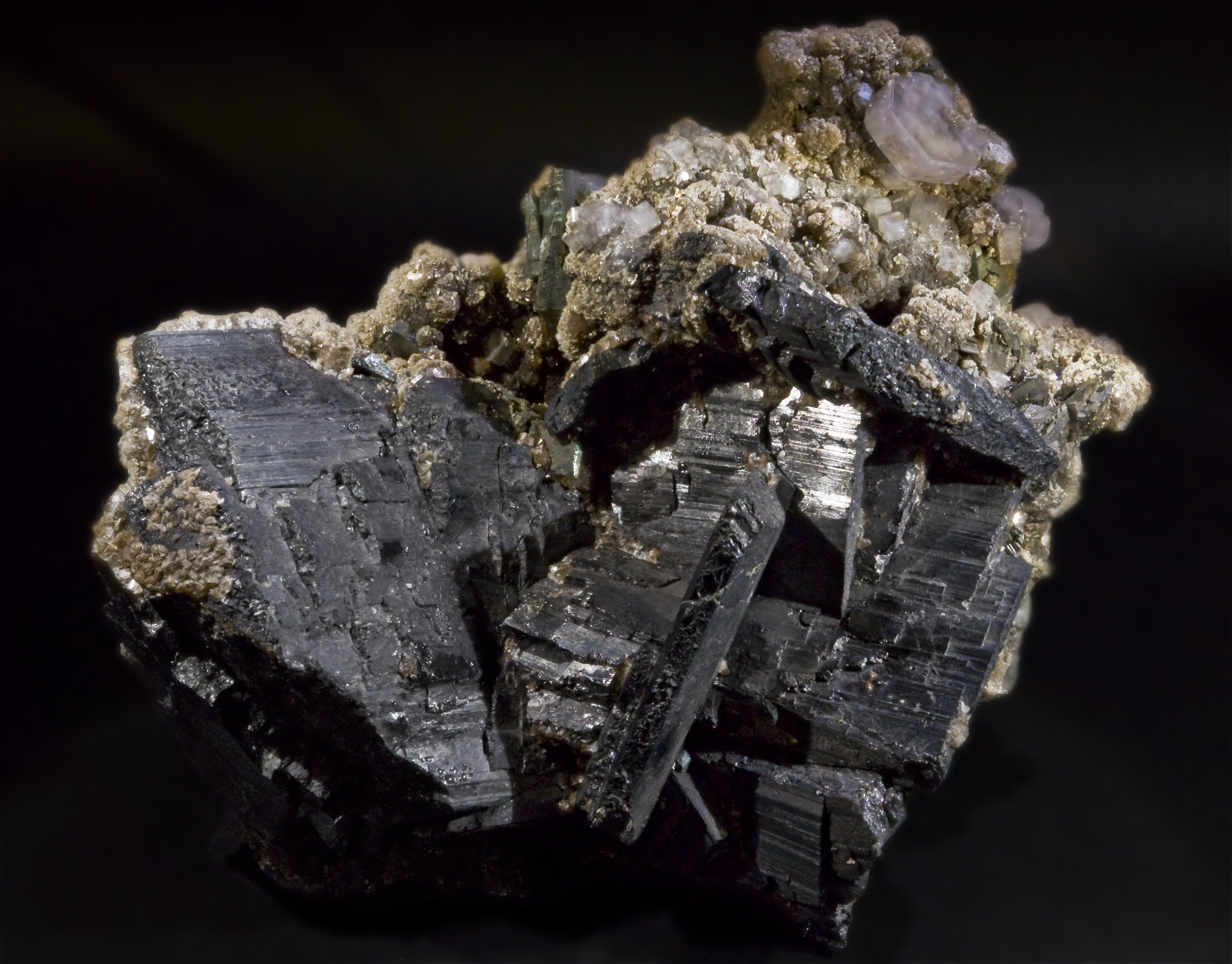 wolframite with apatite - Panasqueira Mines, Panasqueira, Covilhã, Castelo Branco District, Portugal - (18x13cm)